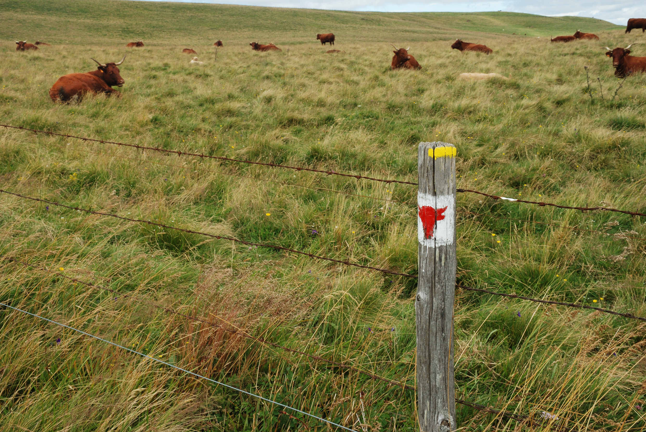 Blaze on a trail in Cézallier known as the tour de bœufs rouges (red bull tour) (Puy-de-Dôme, France).